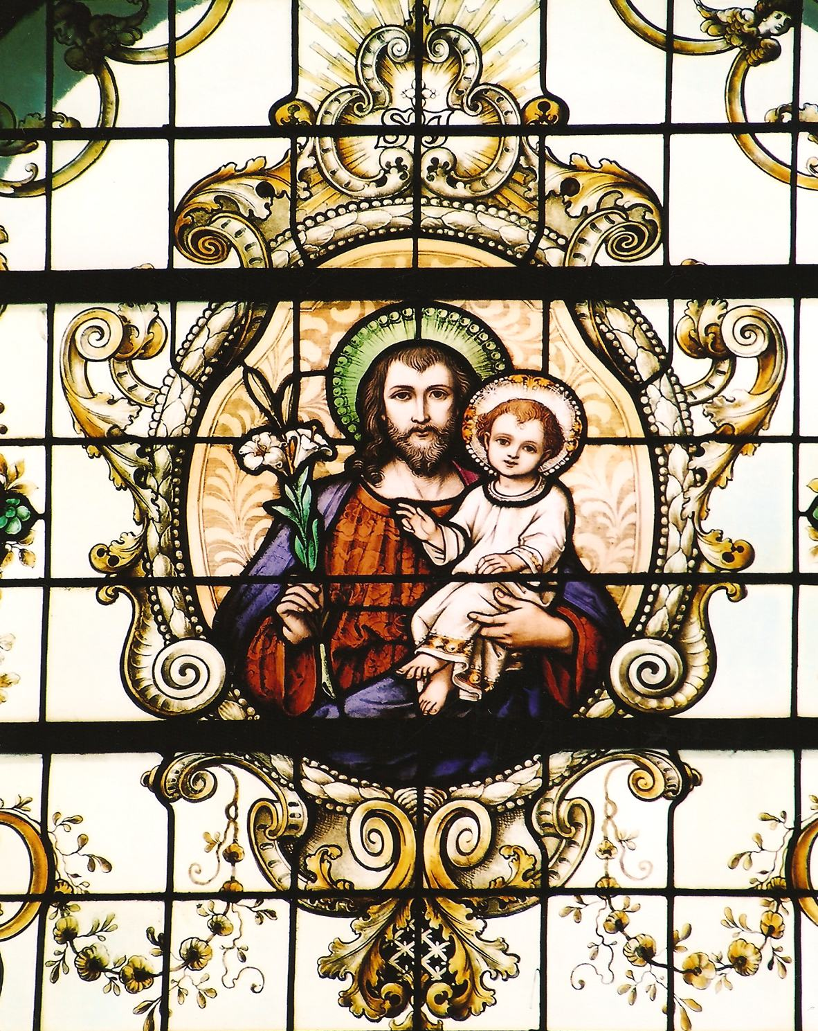 In the shrine's churche Our Snowy Lady in the Śnieżnik Mountains